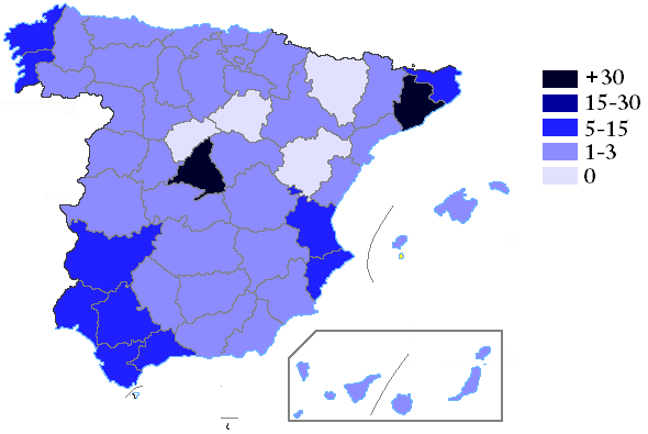 Carrefour in Spain